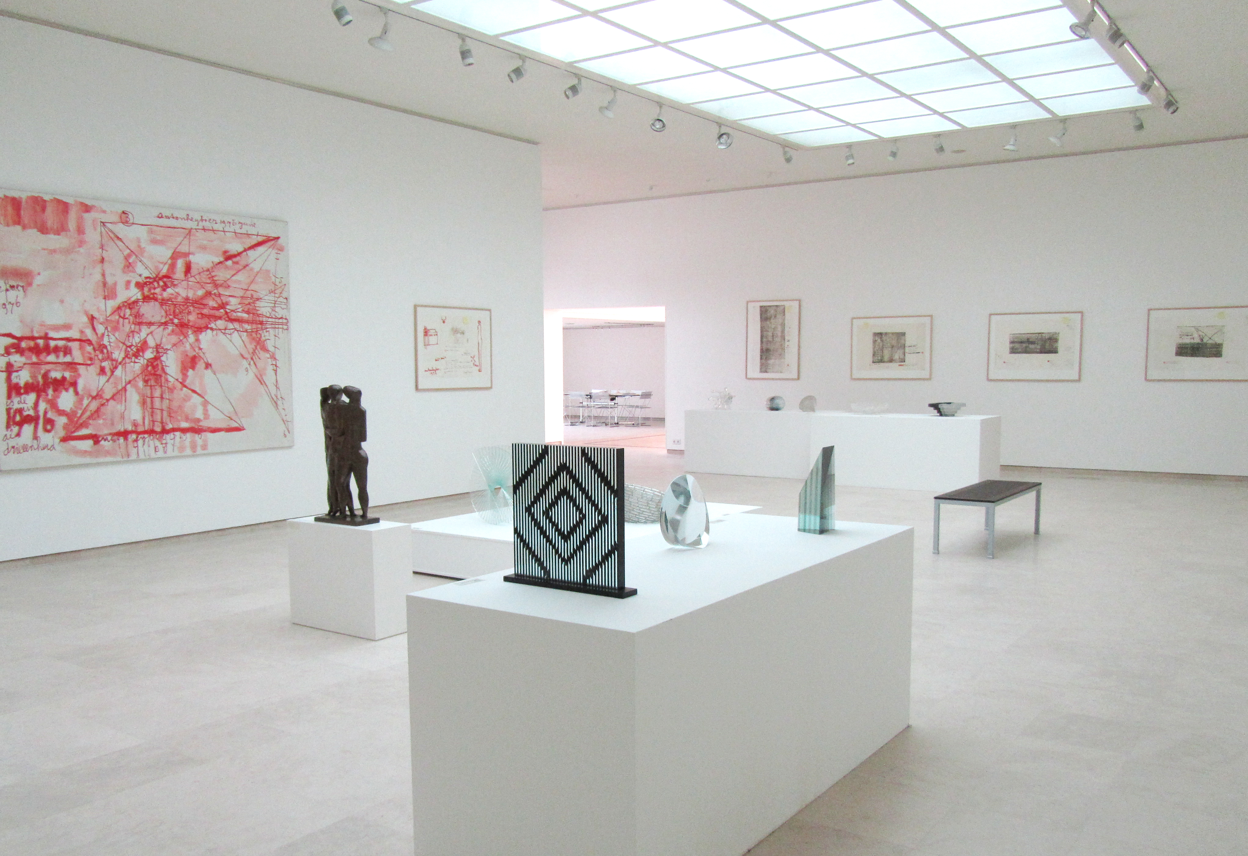 Museum space with works of Anton Heyboer and works of the own glass collection